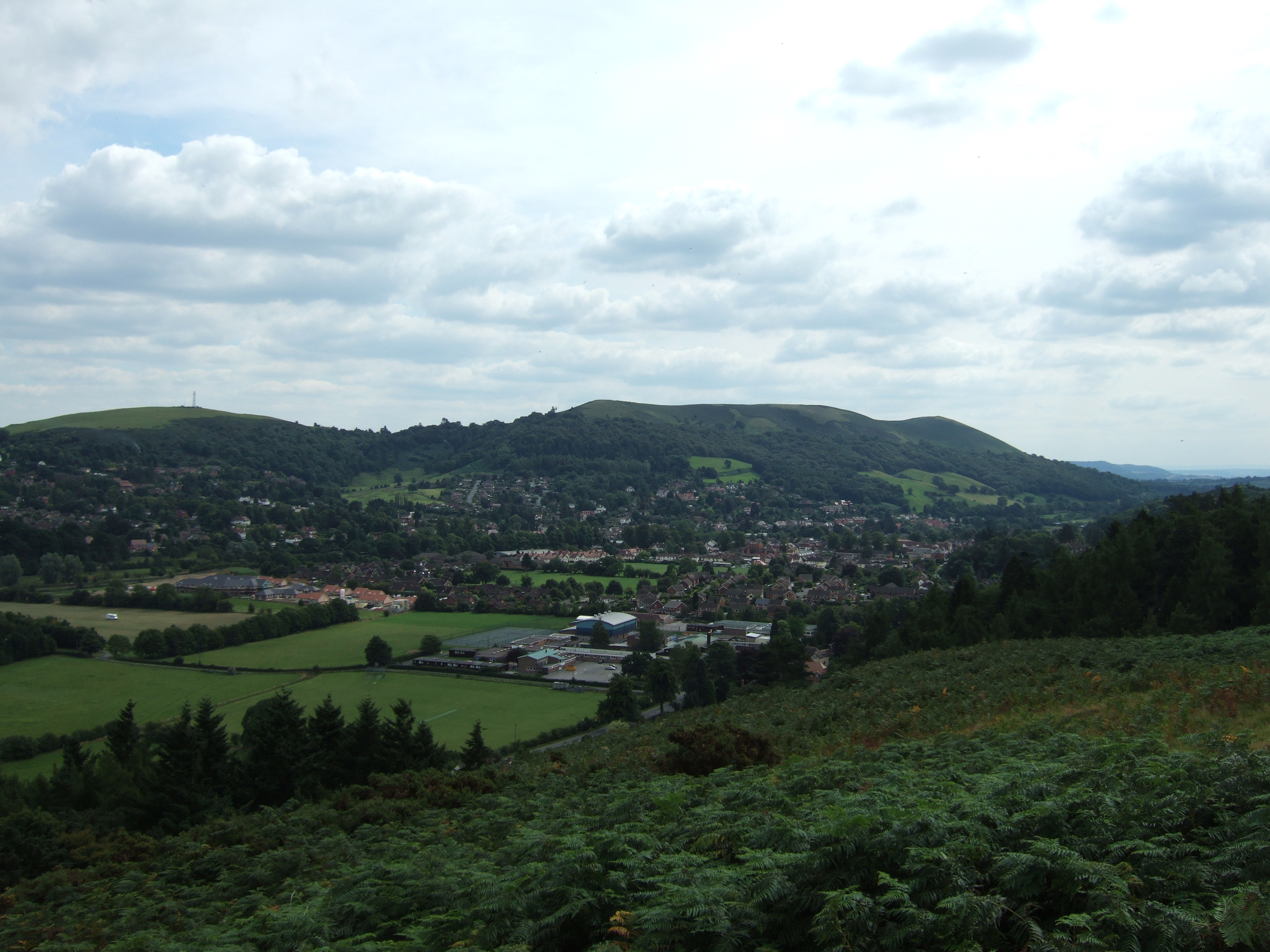 The town of Church Stretton, in Shropshire, as seen from Nover's Hill.